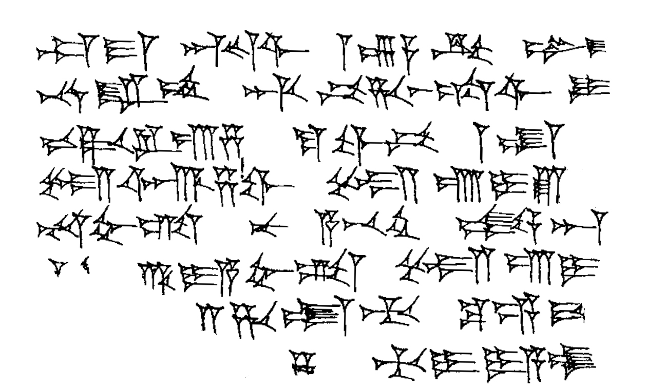 Fragment of Alaksandu treaty.